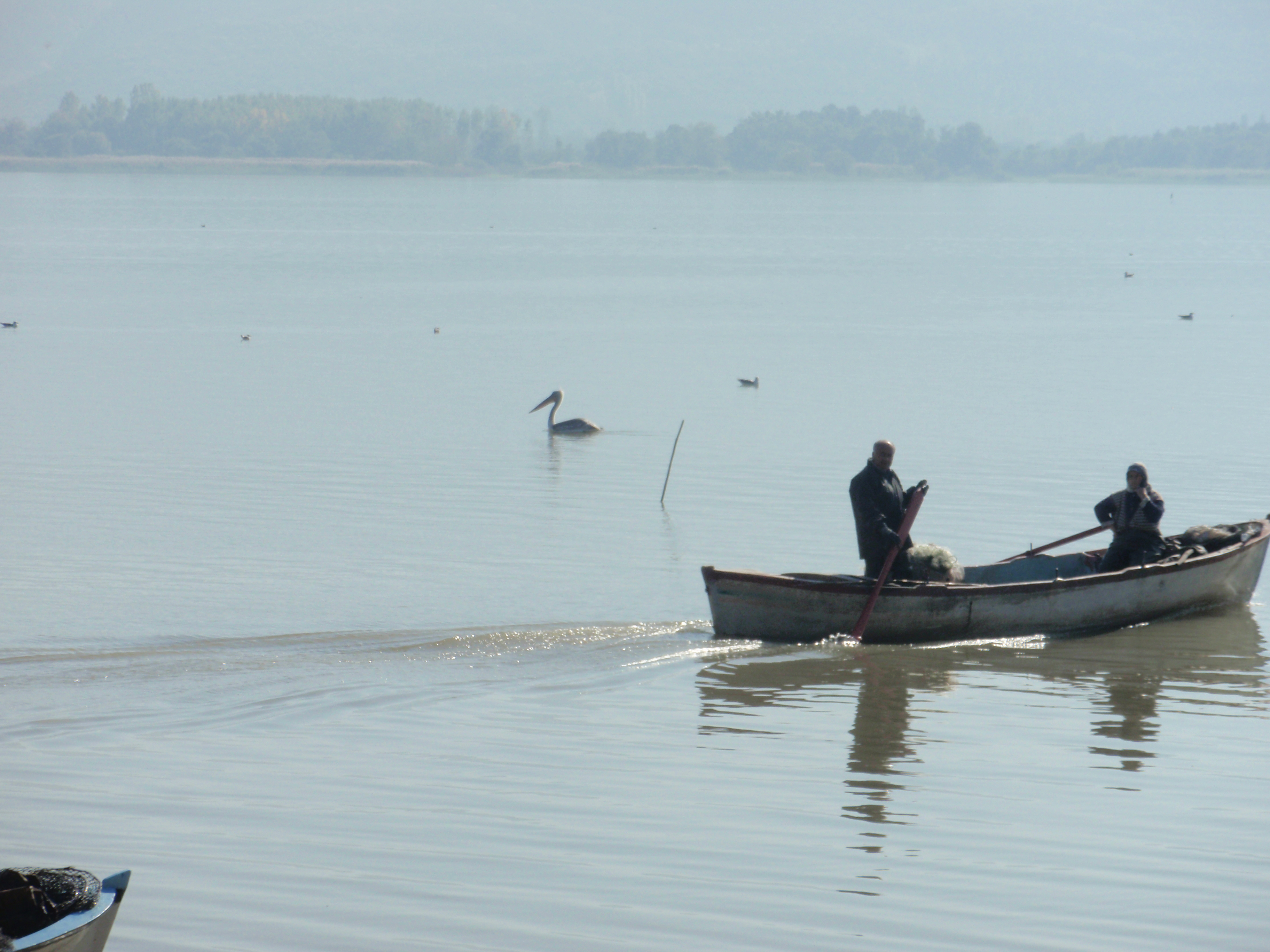 fishermen in gölyazı